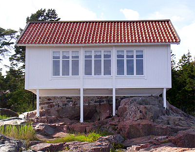 Albert Engström's studio in Grisslehamn.